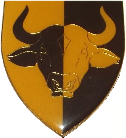 SADF 116 SA Battalion emblem